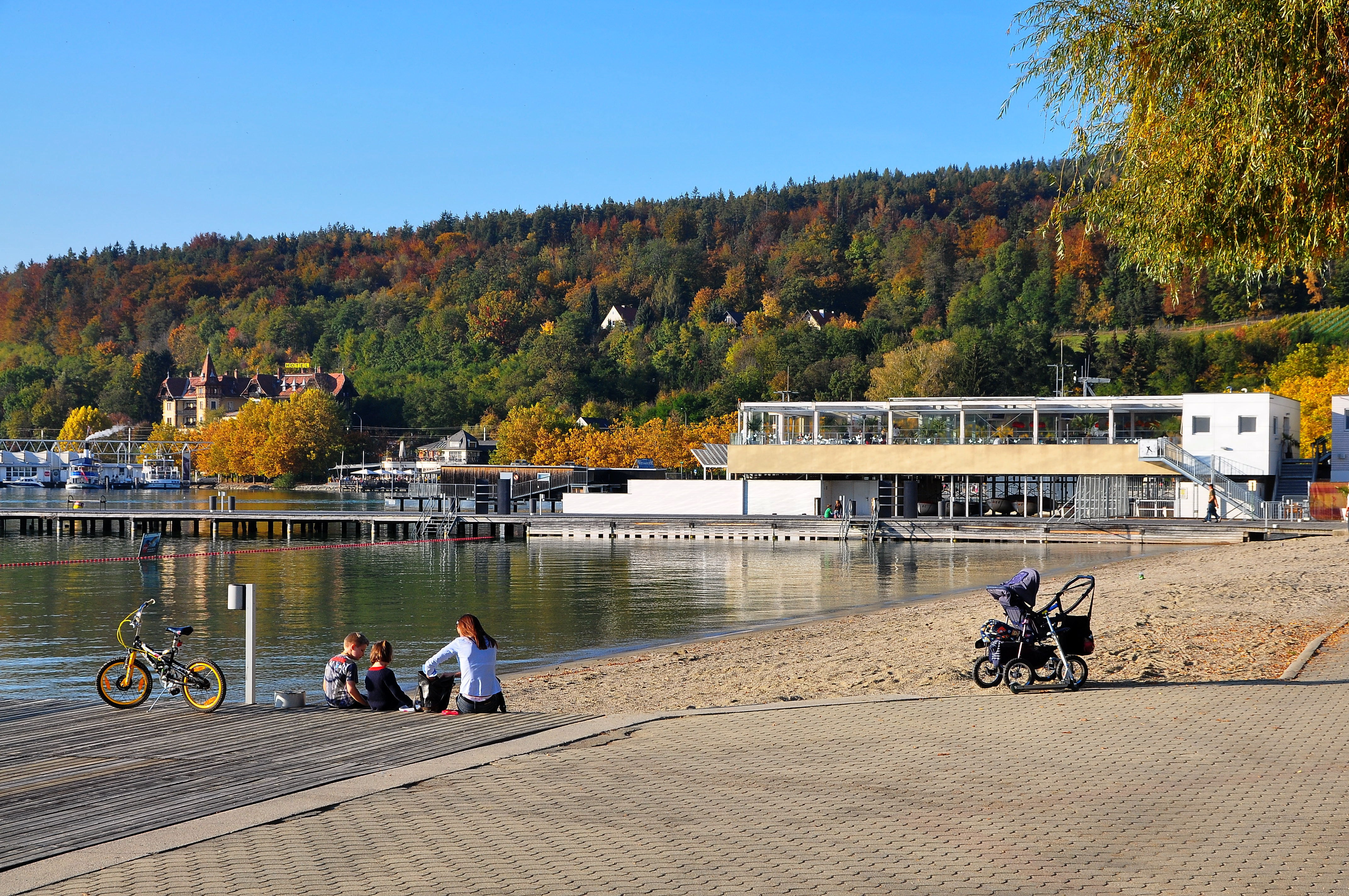 Lido with the cafe "sunset bar" in Klagenfurt on the Lake Woerth, Carinthia, Austria